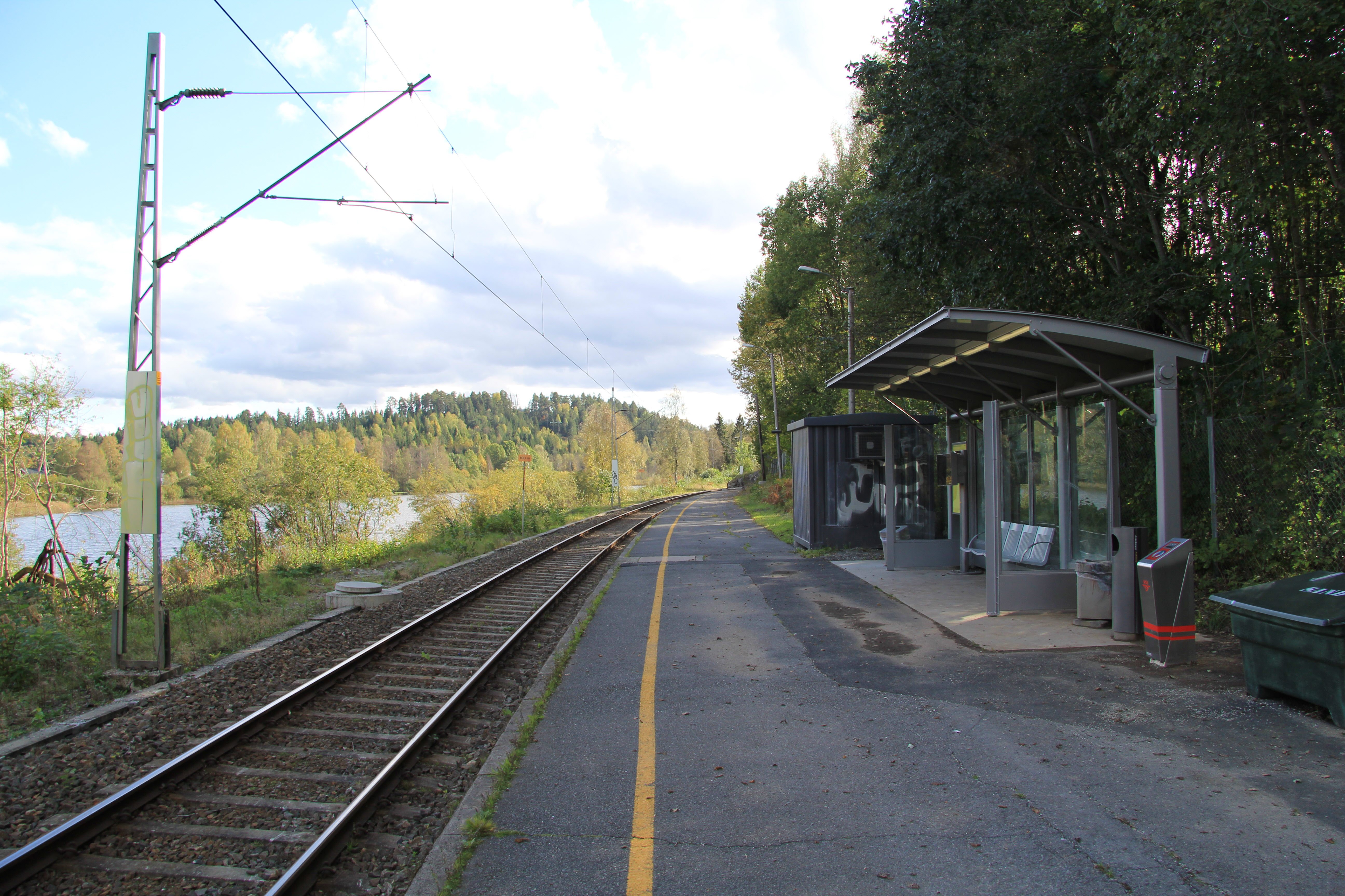 Bondivann train stop at Spikkestadbanen, located in Asker, Norway